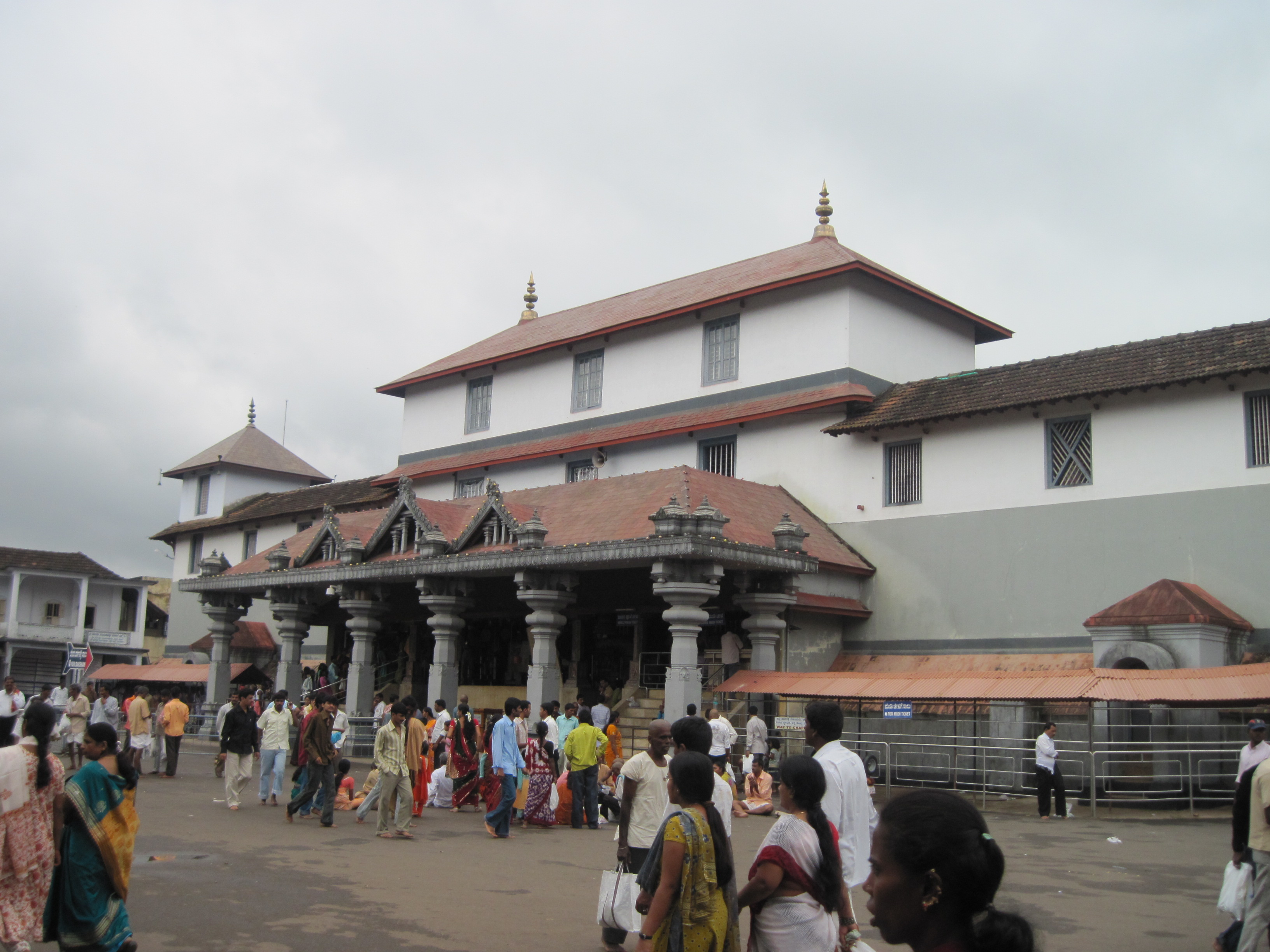 Dharmasthala Temple ಕನ್ನಡ: ಧರ್ಮಸ್ಥಳ ದೇವಾಲಯ